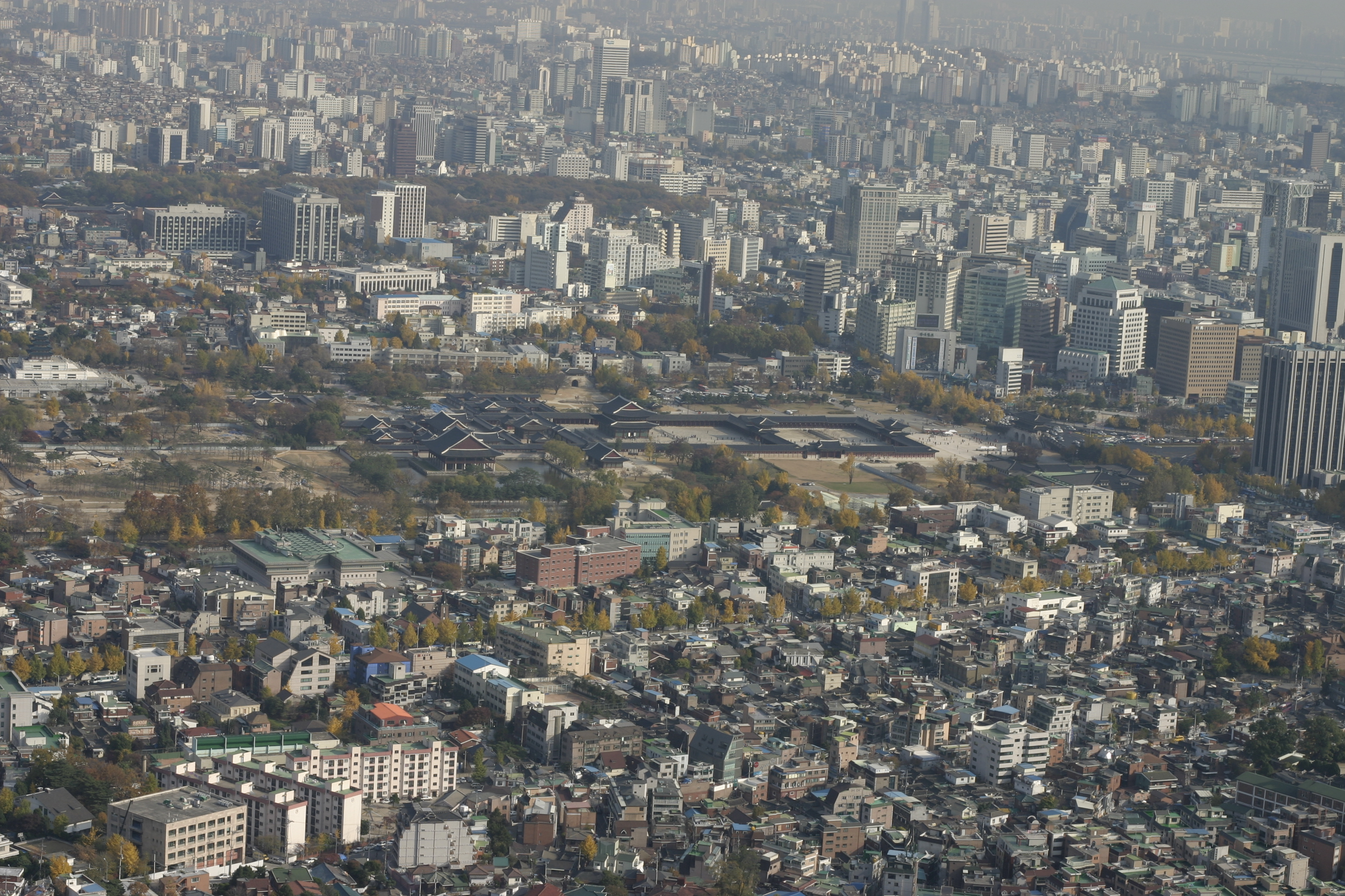 Seoul in Korea